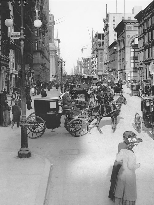 Fifth Avenue, New York 1897